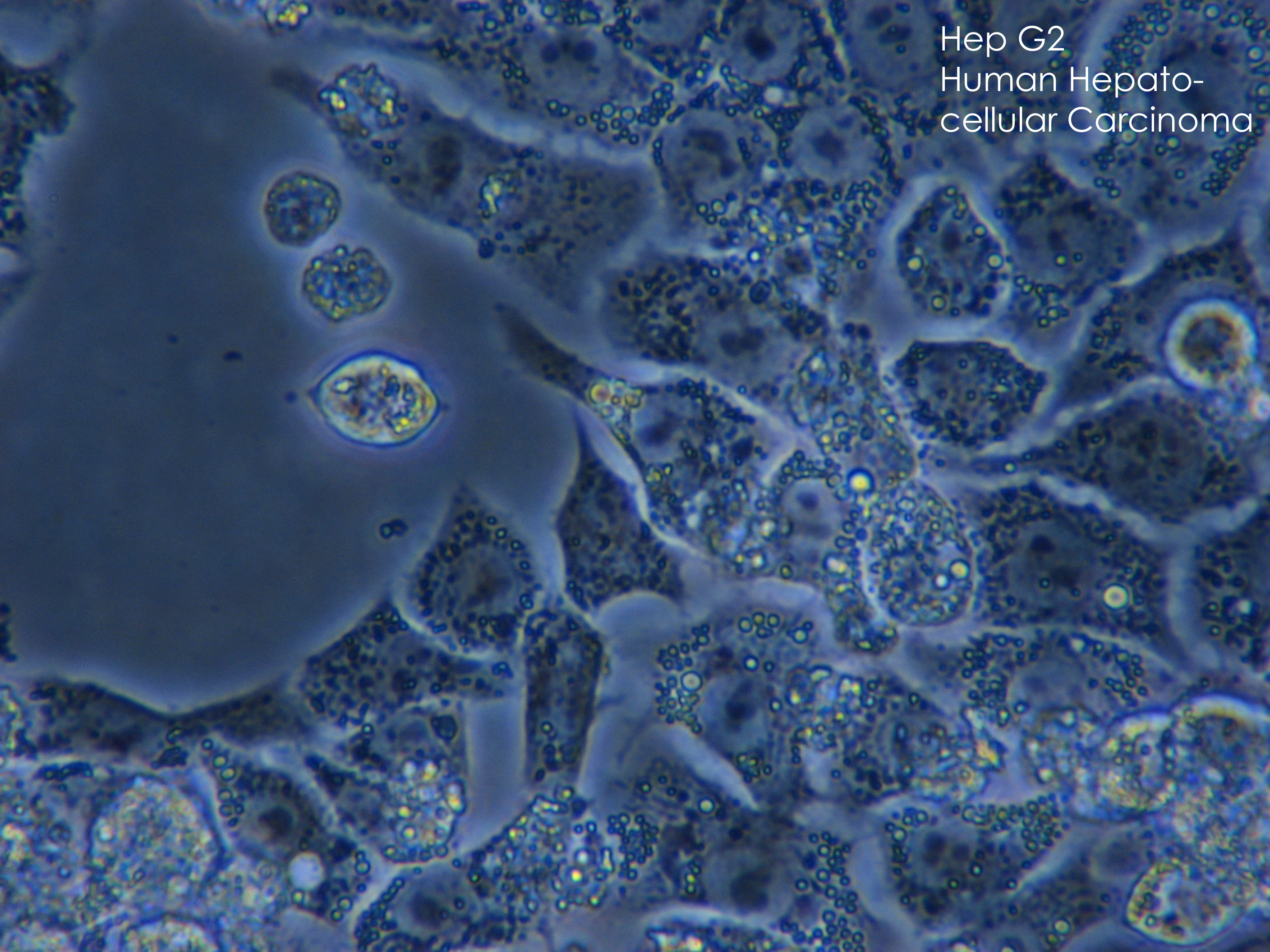 Image taken by the author with Canon Powershot S3 IS using Nikon TS100 inverted phase contrast microscope.